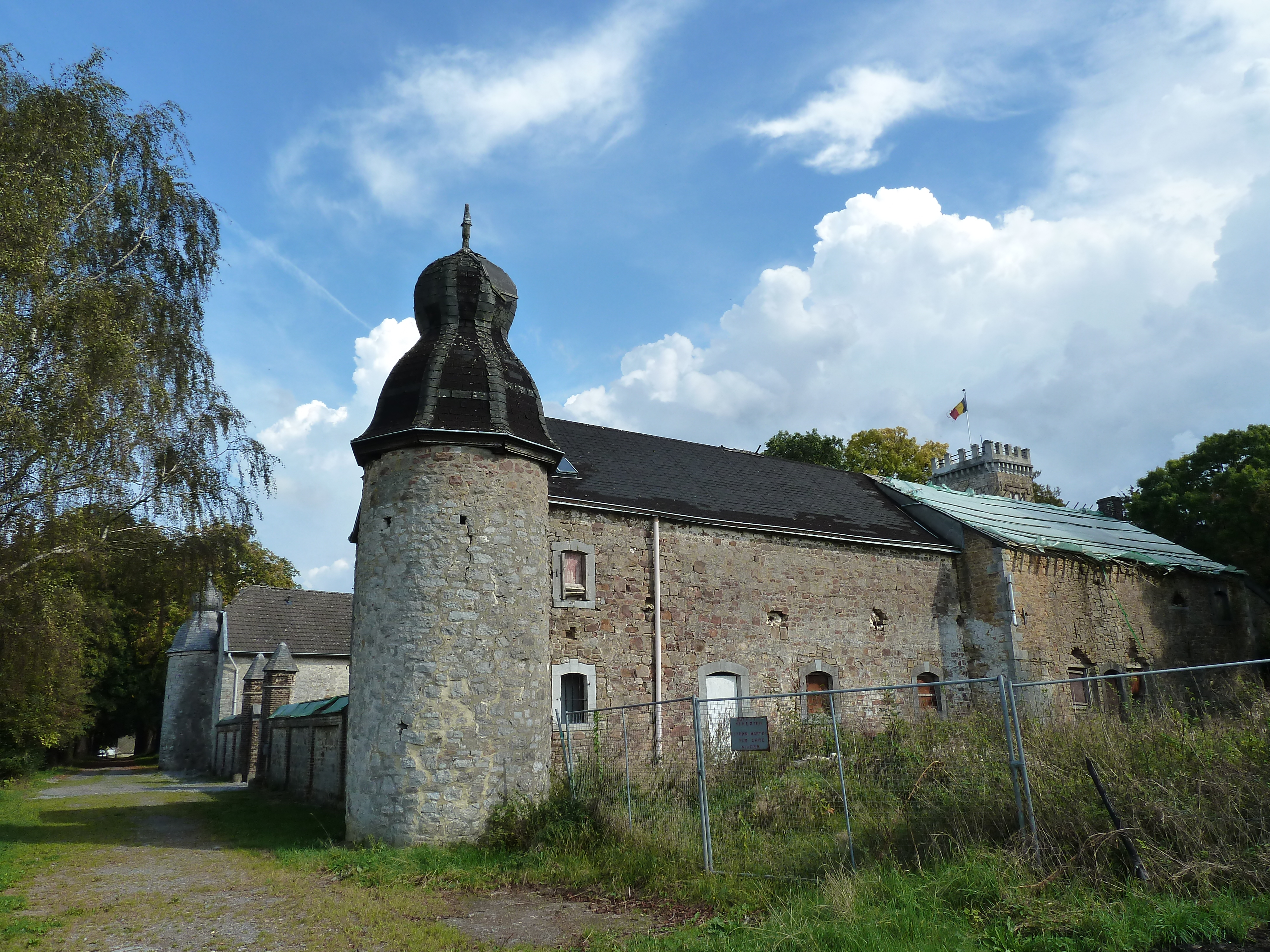 Castle Knoppenburg and surrounding area, Raeren, Belgium